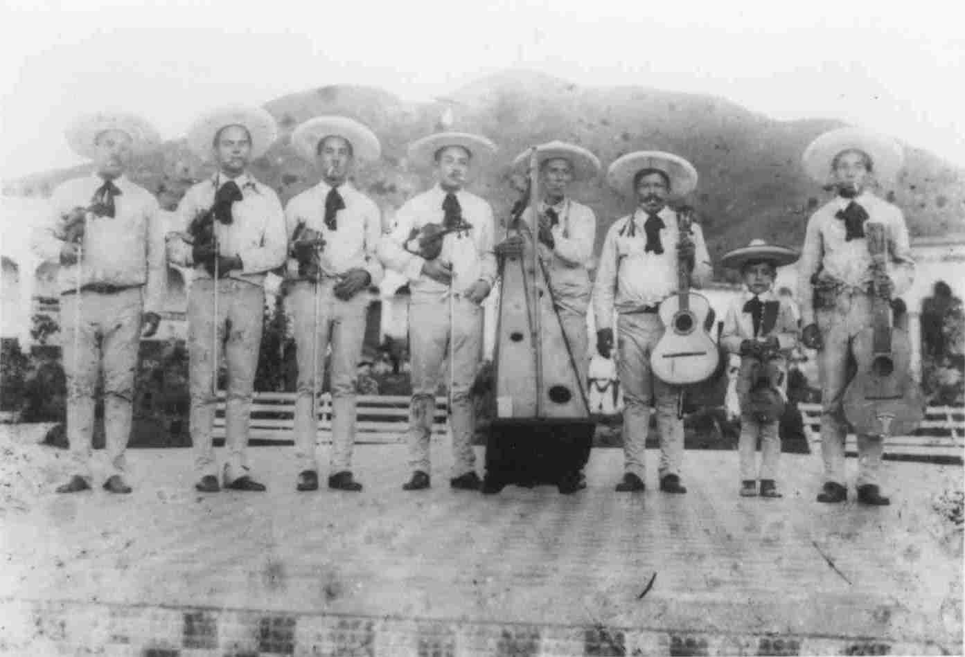 Miembros del Mariachi Vargas en 1932.